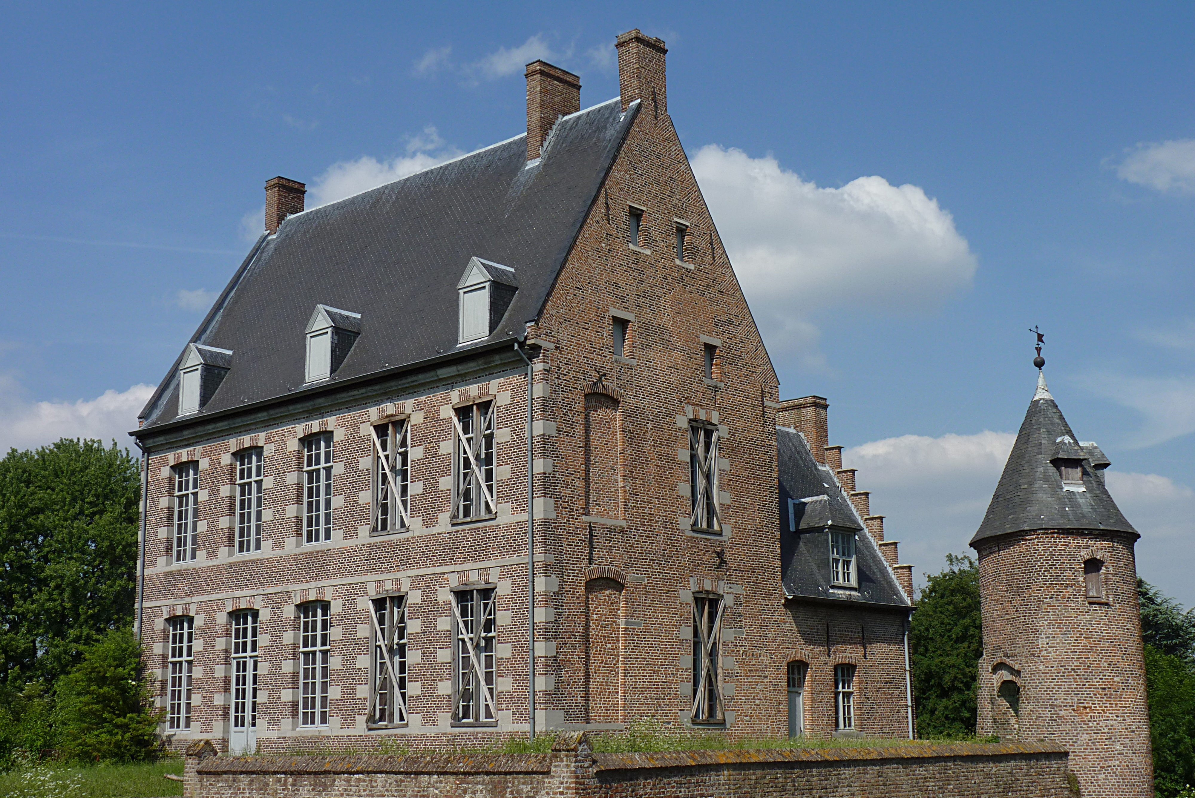 Castle of the Counts in Mouscron, Belgium.